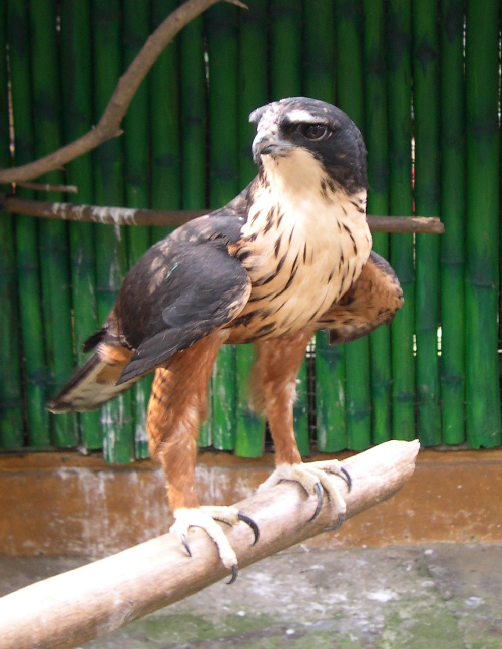 A Rufous-bellied Eagle in the Philippines